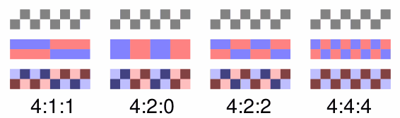 Demonstrate common chroma subsampling ratios with big-pixel diagrams